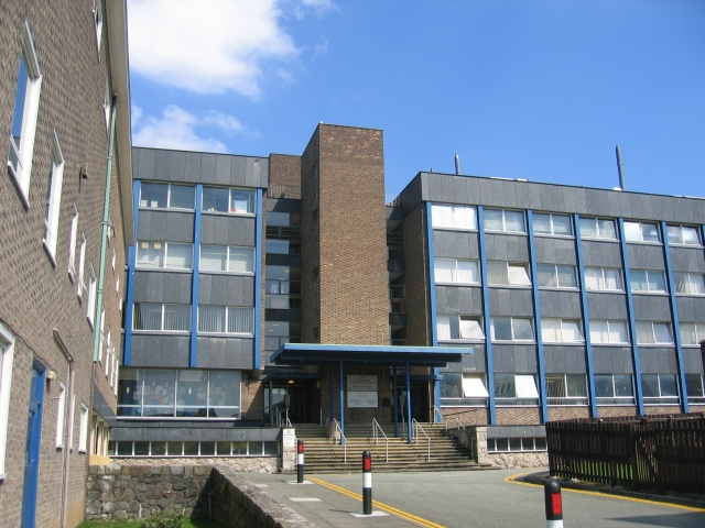 UCNW School of Informatics. Situated in Dean Street and known as the School of Electrical and Electronic Engineering when I studied there!